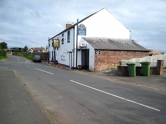 Centurion Inn, Walton On Hadrians Wall National Trail which runs 84 miles from Bowness-on-Solway to Wallsend.